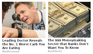 Fictional example of clickbait style adverts. This file was derived from:✦ Street Doctoring.jpg: ✦ Money-1428594 1920.jpg